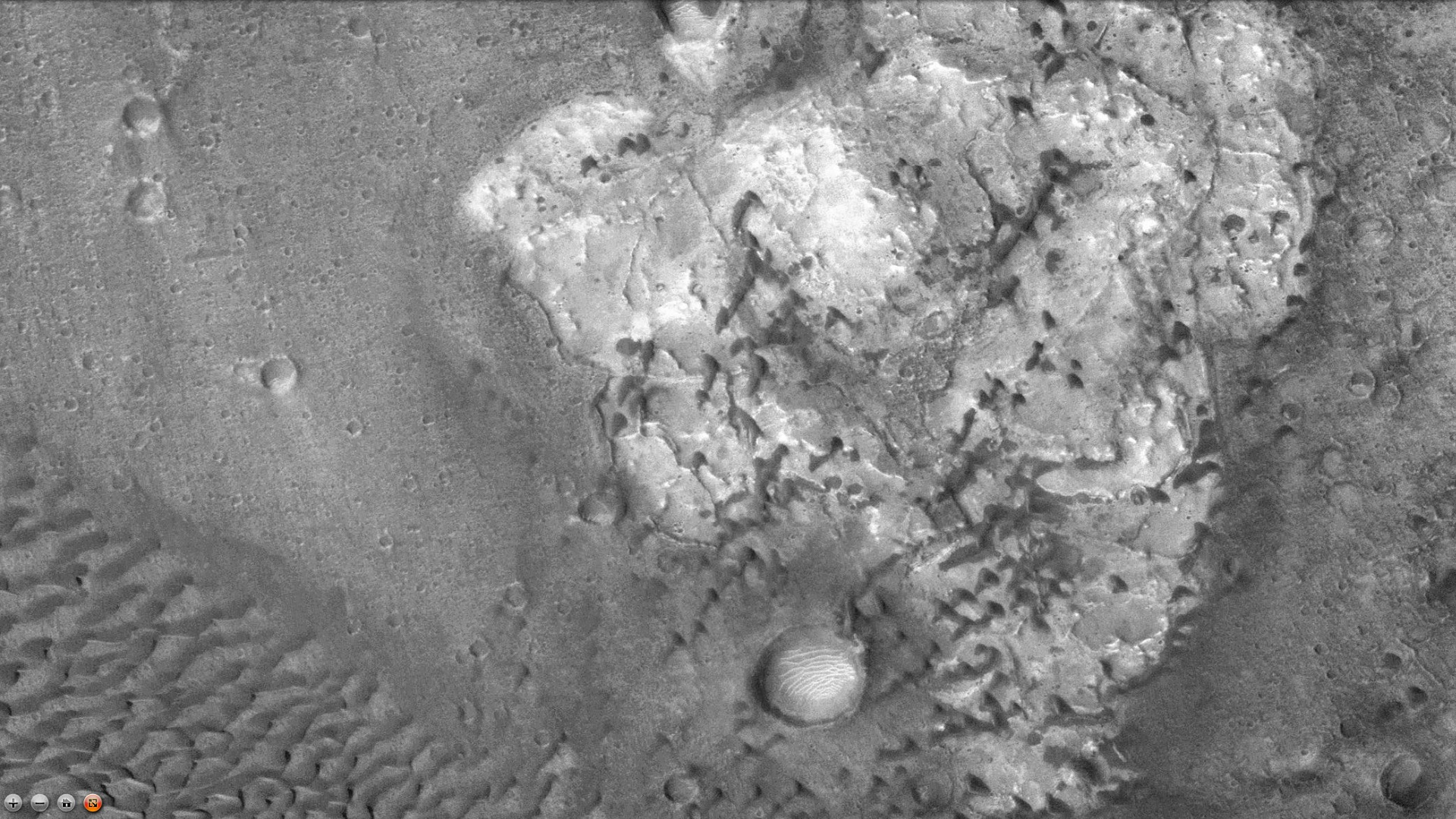 Enlarged view of western side of Rutherford Crater showing dunes, as seen by CTX